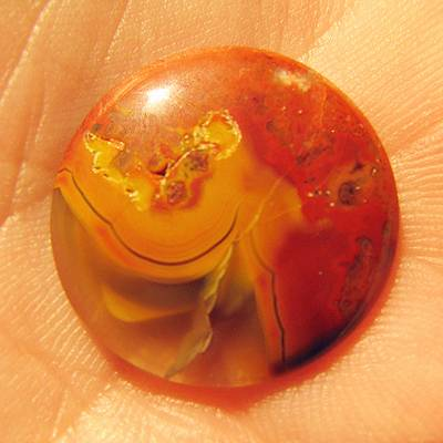 A cabochon of Tennessee Paint Rock, an agate type found in southern Tennessee and northern Alabama.